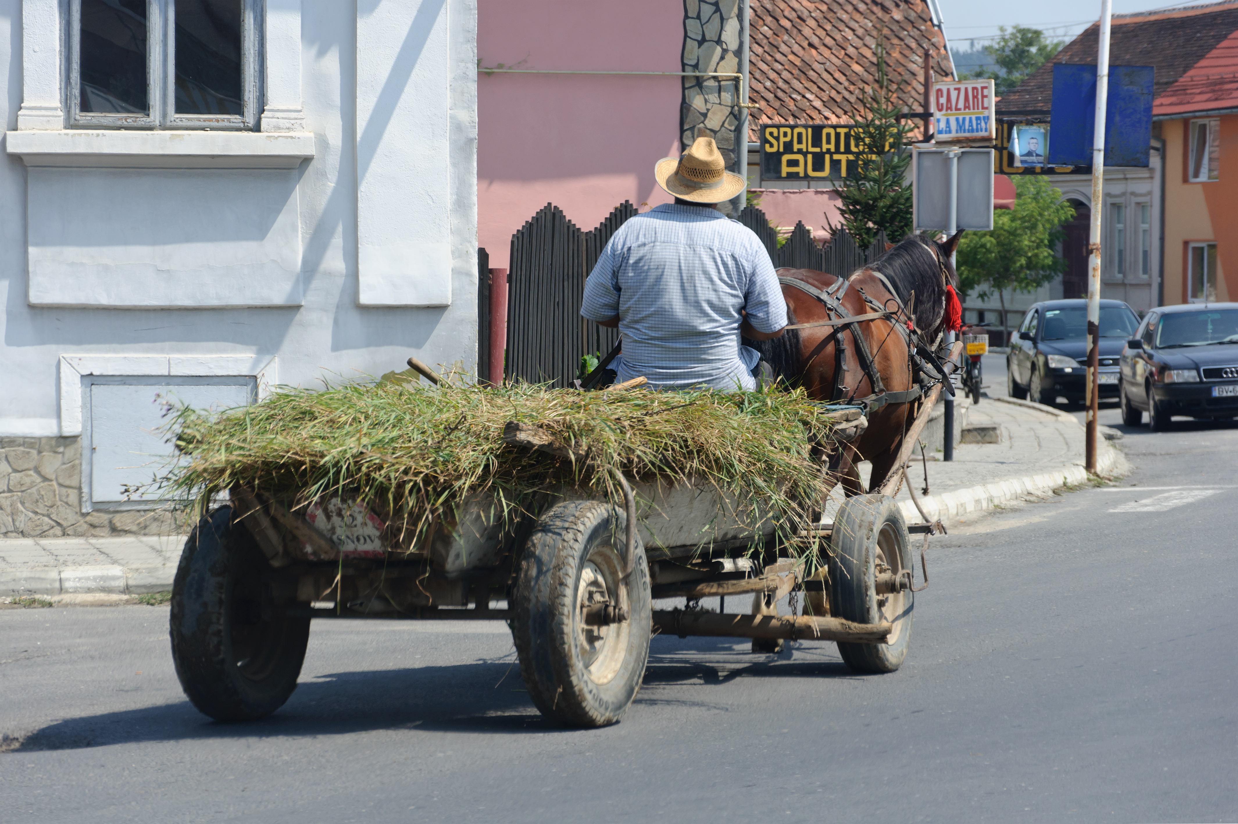 Horse-drawn transport of forage, Râșnov, Romania.